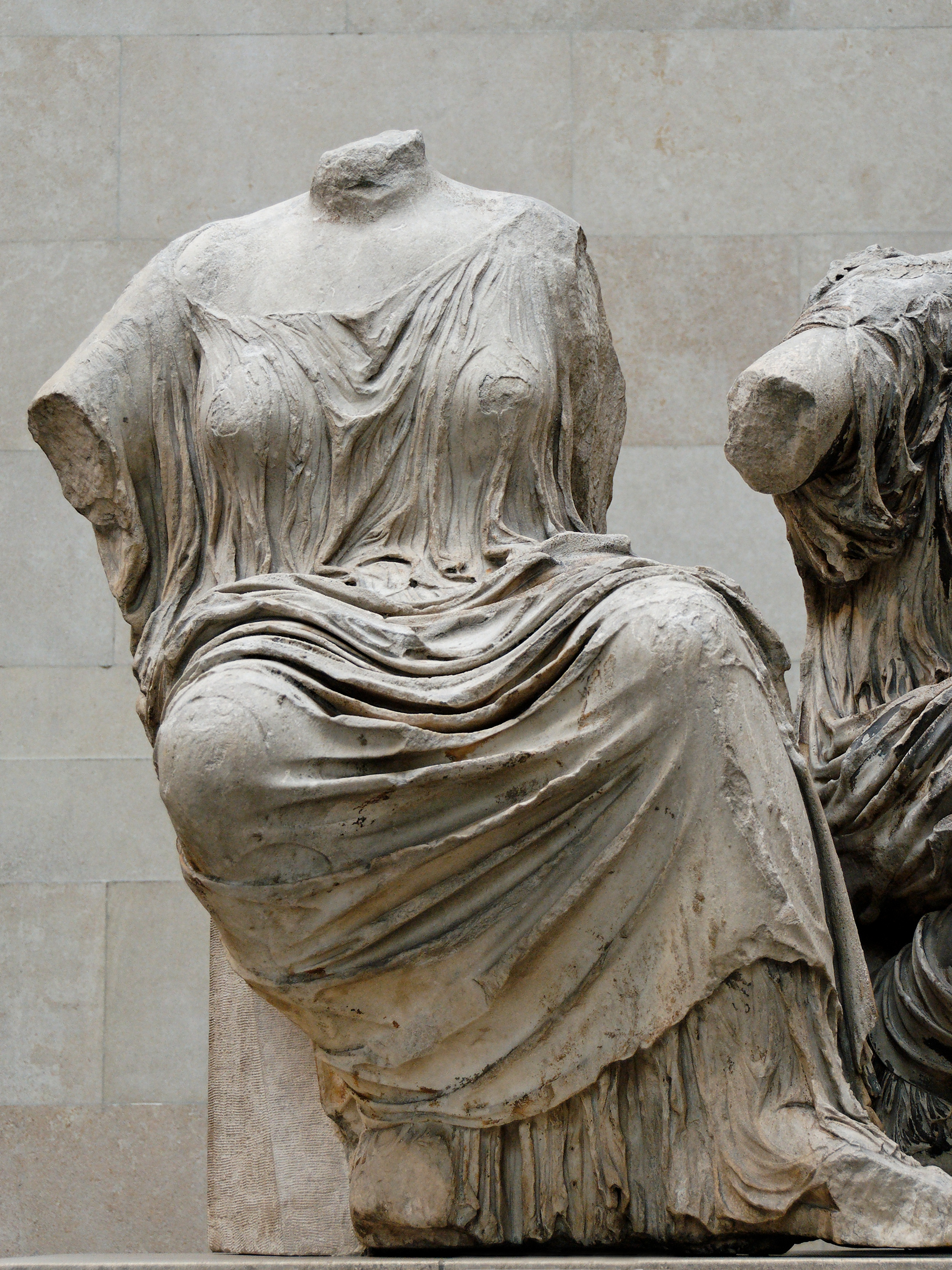 Demeter ? Woman seated on a chest, from Parthenon east pediment, ca. 447–433 BC.